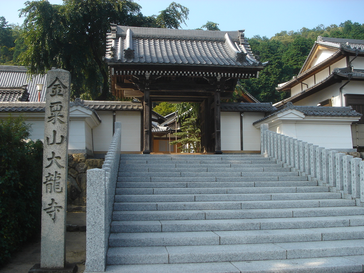 Dairyuji(Temple) in Gifu Pref(大龍寺 (岐阜市)),Gifu,Gifu,Japan(岐阜県岐阜市)で撮影